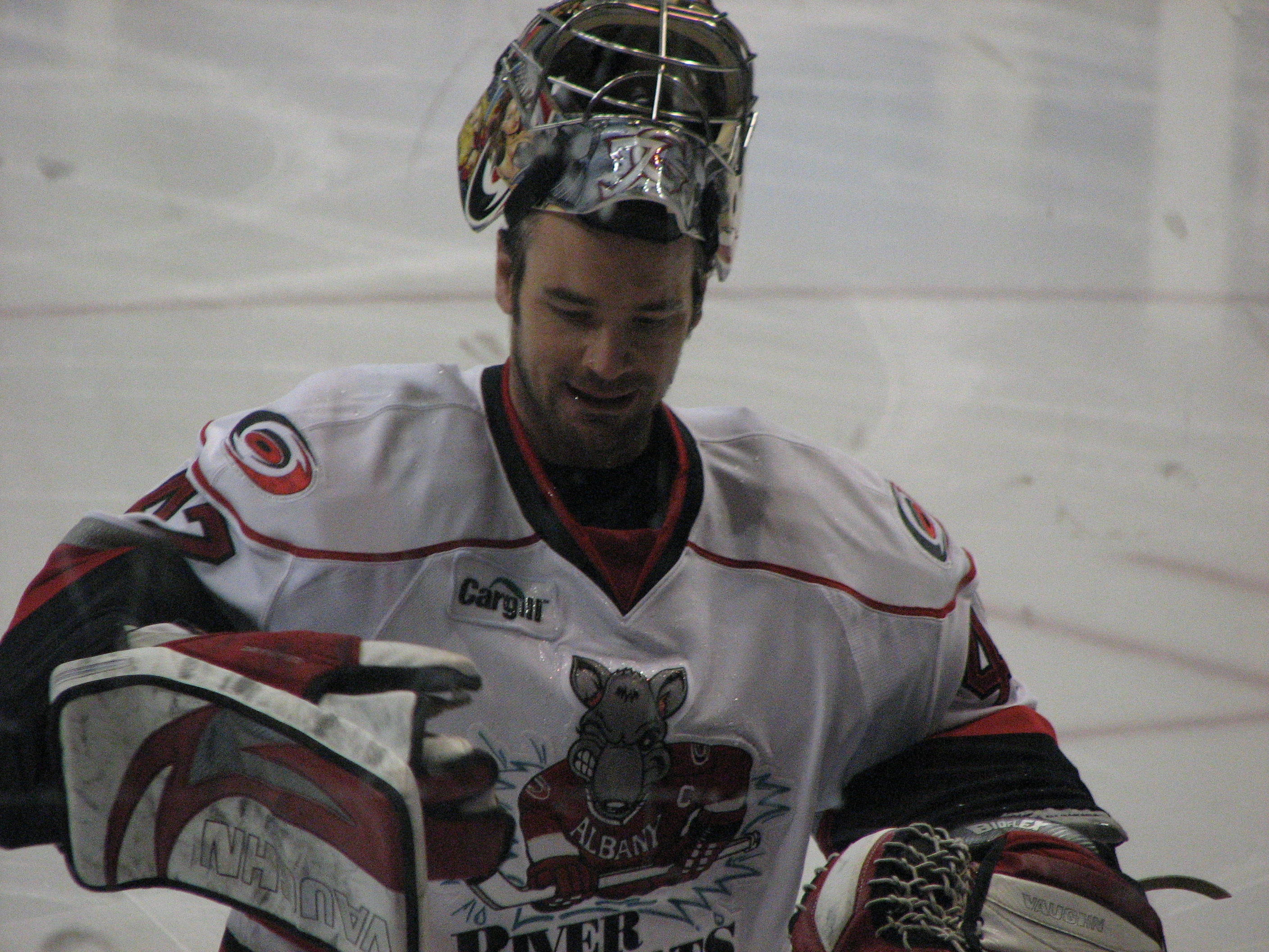 Albany v Philly Albany River Rats vs Philadelphia Phantoms of the American Hockey League (AHL). Taken on January 5, 2008. This photo also appears in goaliej54's Flickr set "Albany River Rats 1-5-08" (Set of 101)